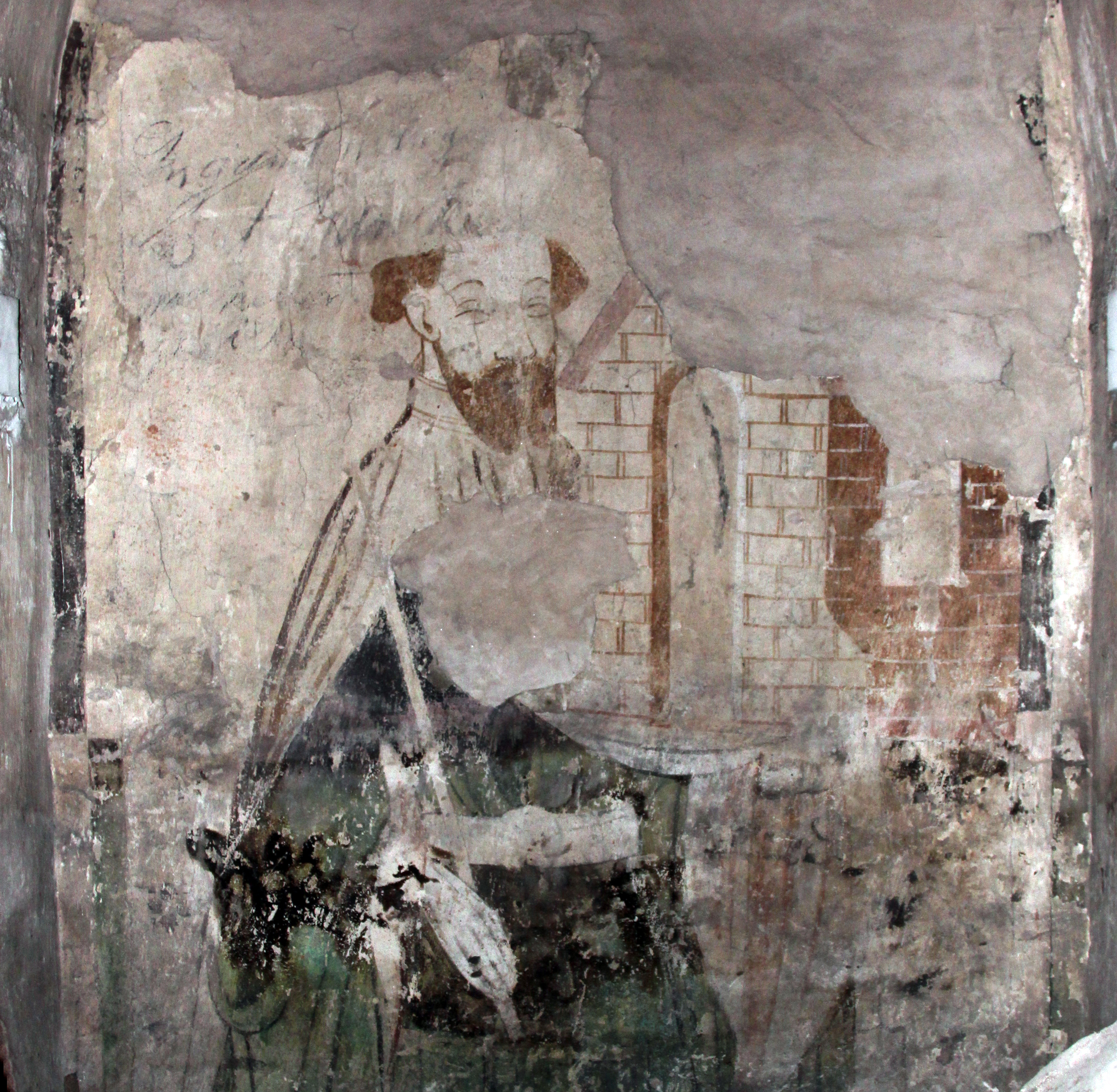 Riddarholmen church, Stockholm, Sweden: mural depicting king Magnus Ladulås.